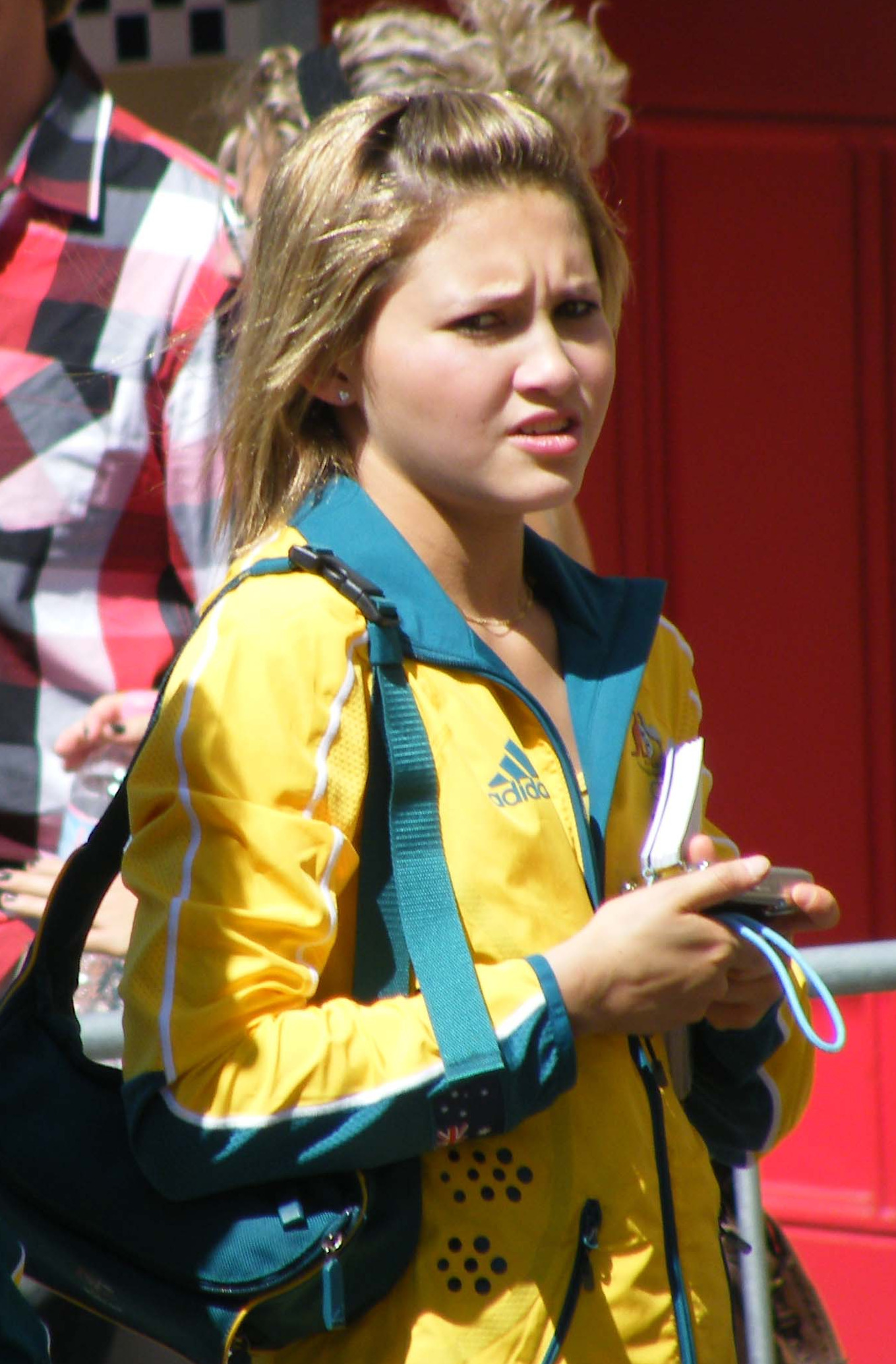 Parade of Australian Olympians - Sydney 2008 - Melissa Wu - Diving.